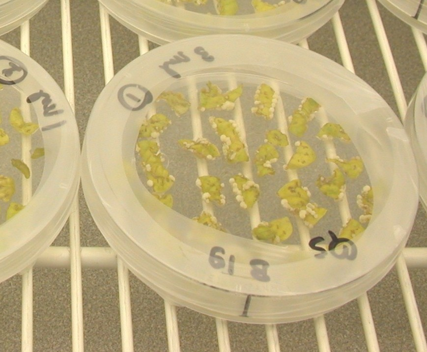 I (seb951) took this image. Plants (S. chacoense) transformed using Agrobacterium. Transformed cells start forming calluses on the side of the leaf pieces.